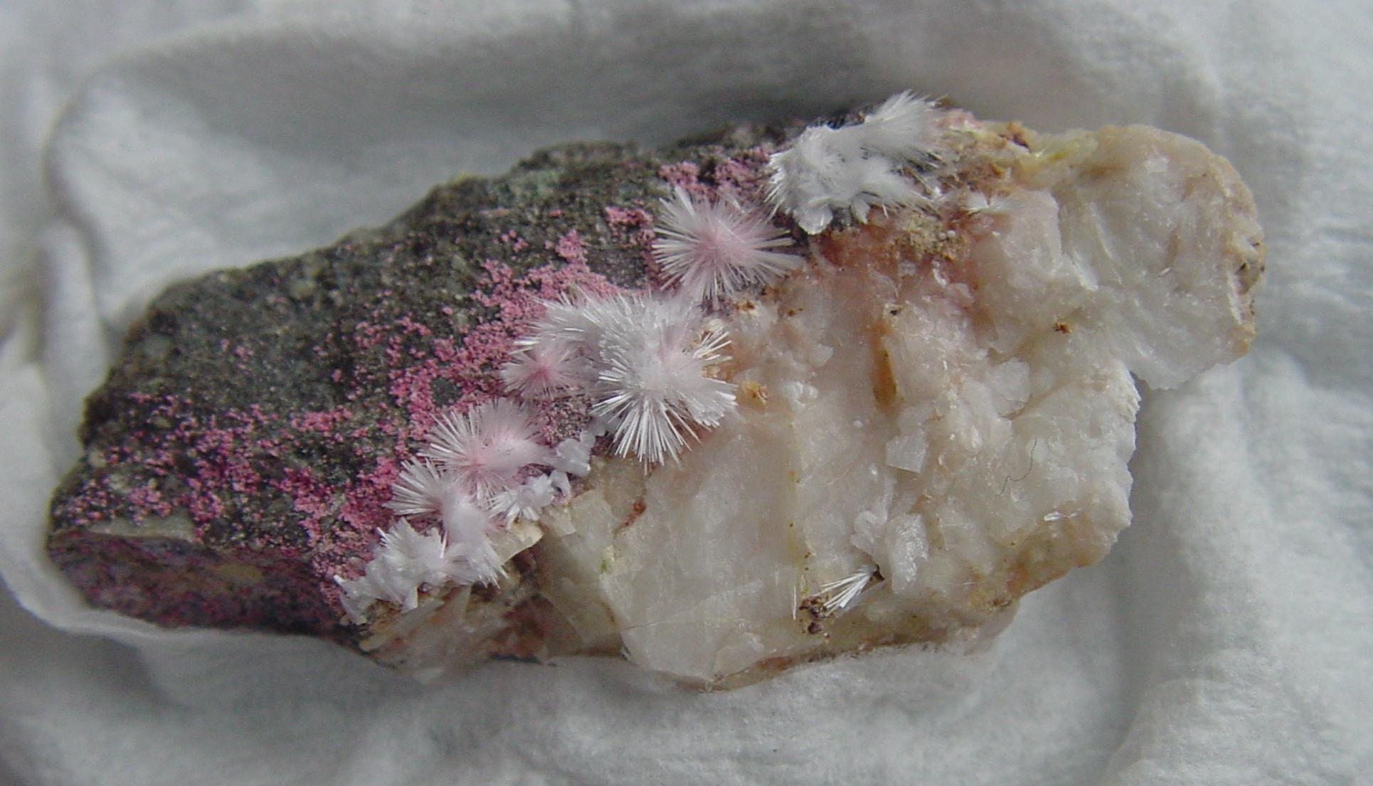 White sprays of picropharmacolite with tabular white guerinite and pink erythrite. Specimen size 5.5 cm. From Bauhaus, Hesse, Germany